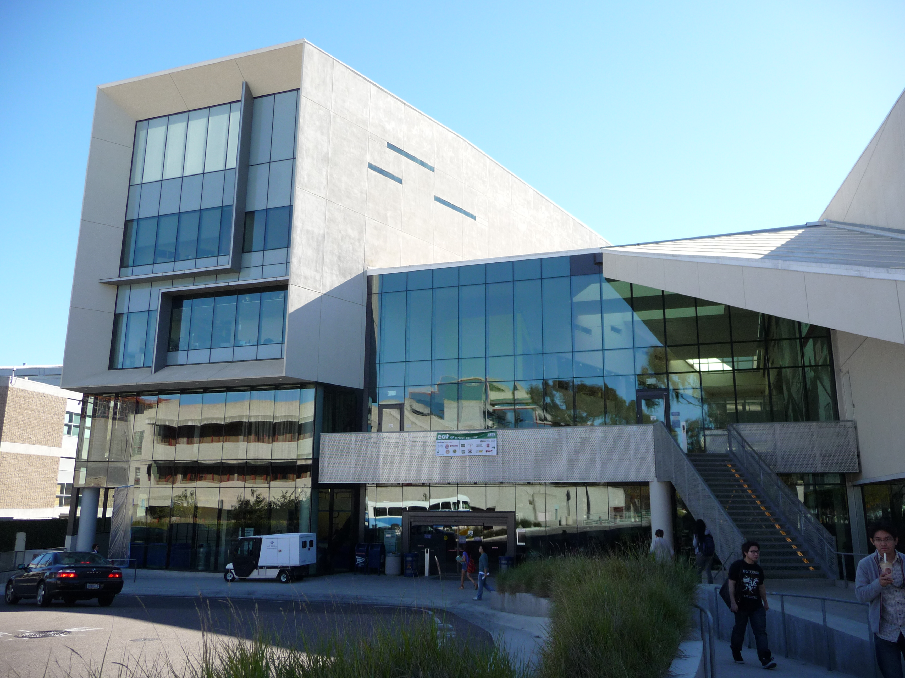 An exterior view of Price Center East (north side) in the central area of UCSD.